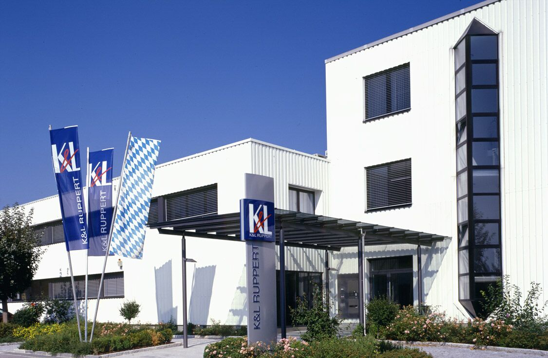 K&L Ruppert Headquarter